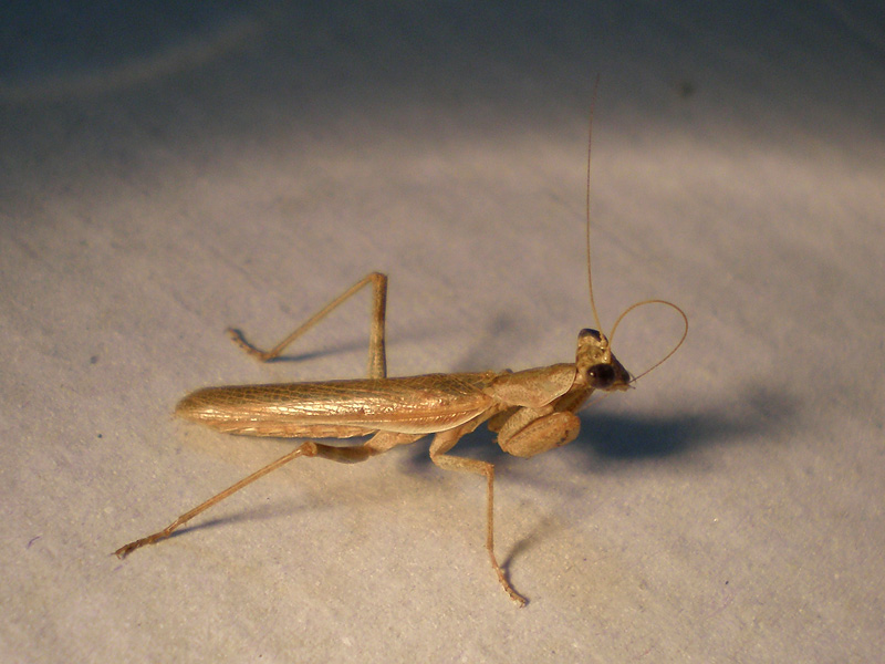 Imago near Tàrrega, Lleida, Catalonia - July 8, 2007